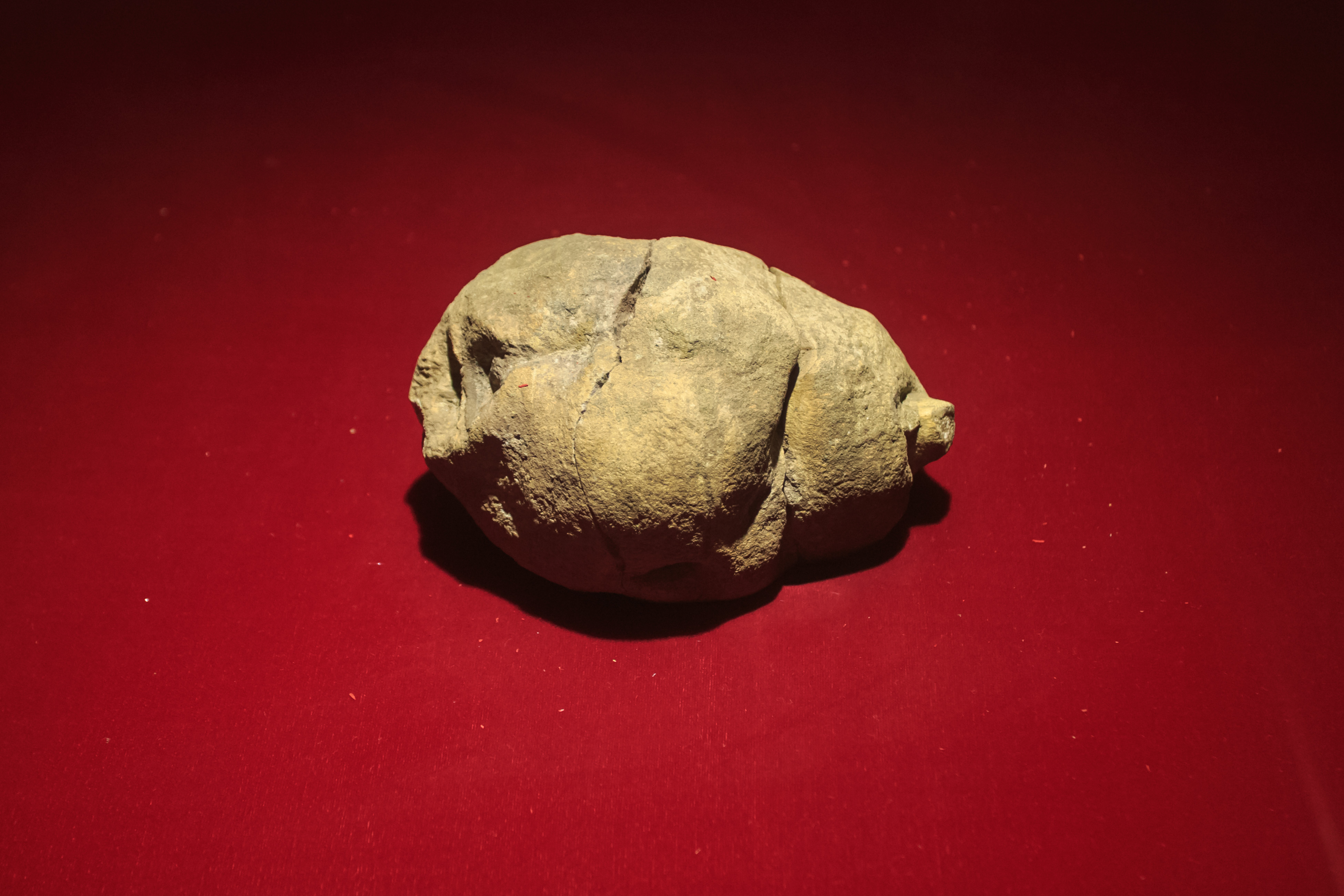 Tail club of Shunosaurus lii. Symtemtic position: Cetiosauridae, Sauropodomorpha, Saurischia. Locality: Dashanpu, Zigong, Sichuan, China. Age: Middle Jurassic (about 160 million years ago). This is a well-preserved tail club of Shunosaurus lii fused by several caudal vertabrae at the end of the tail. It is the first discovery of tail clubs of sauropod dinosaurs in the world. It has not only changed the traditional view of sauropods having no positive defense ability, but also provided imporiant evidence for sauropods being land-living animals.